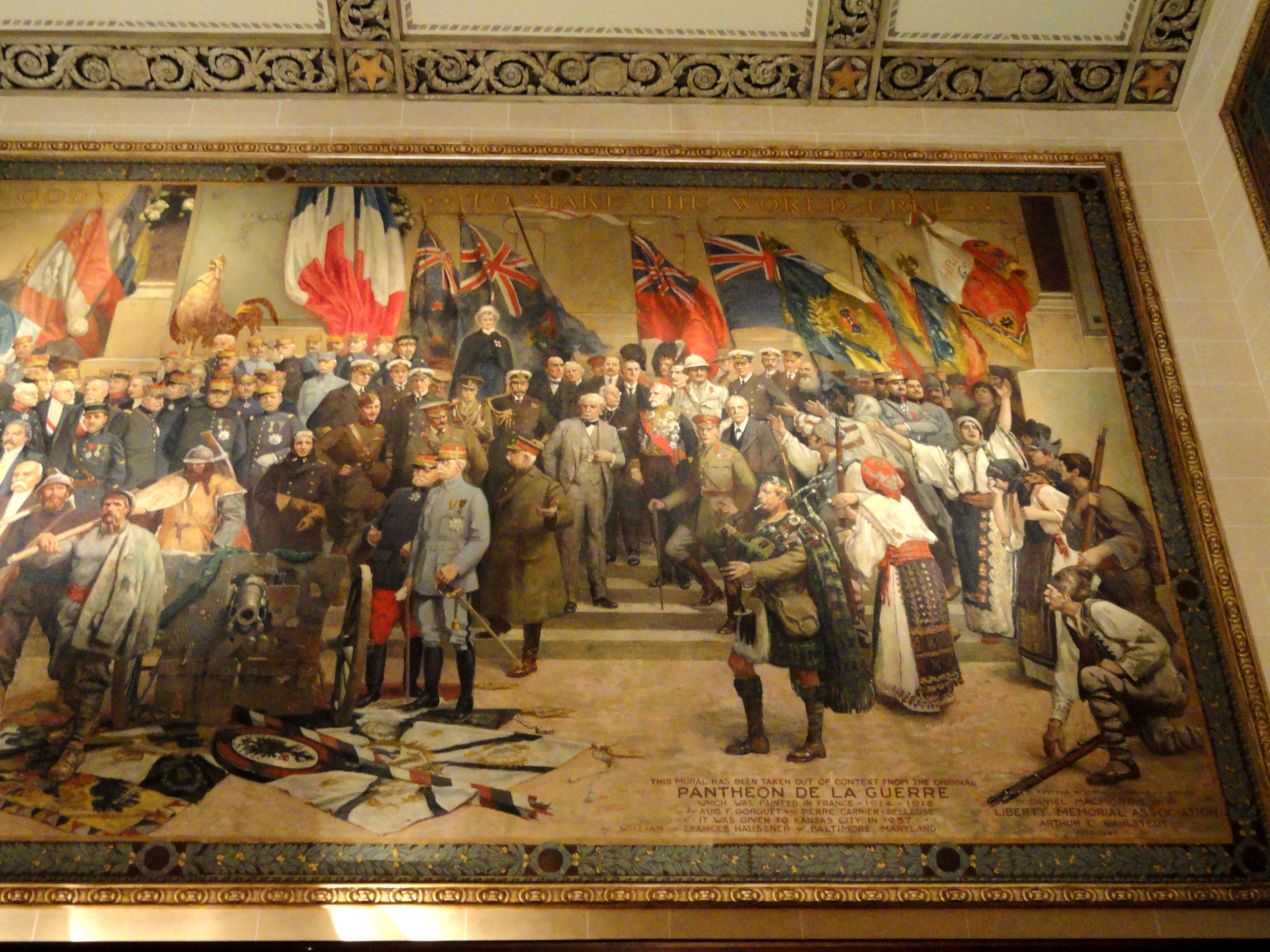 Memory Hall in the National World War I Museum at the Liberty Memorial, 100 W. 26th Street, Kansas City, Missouri, USA.